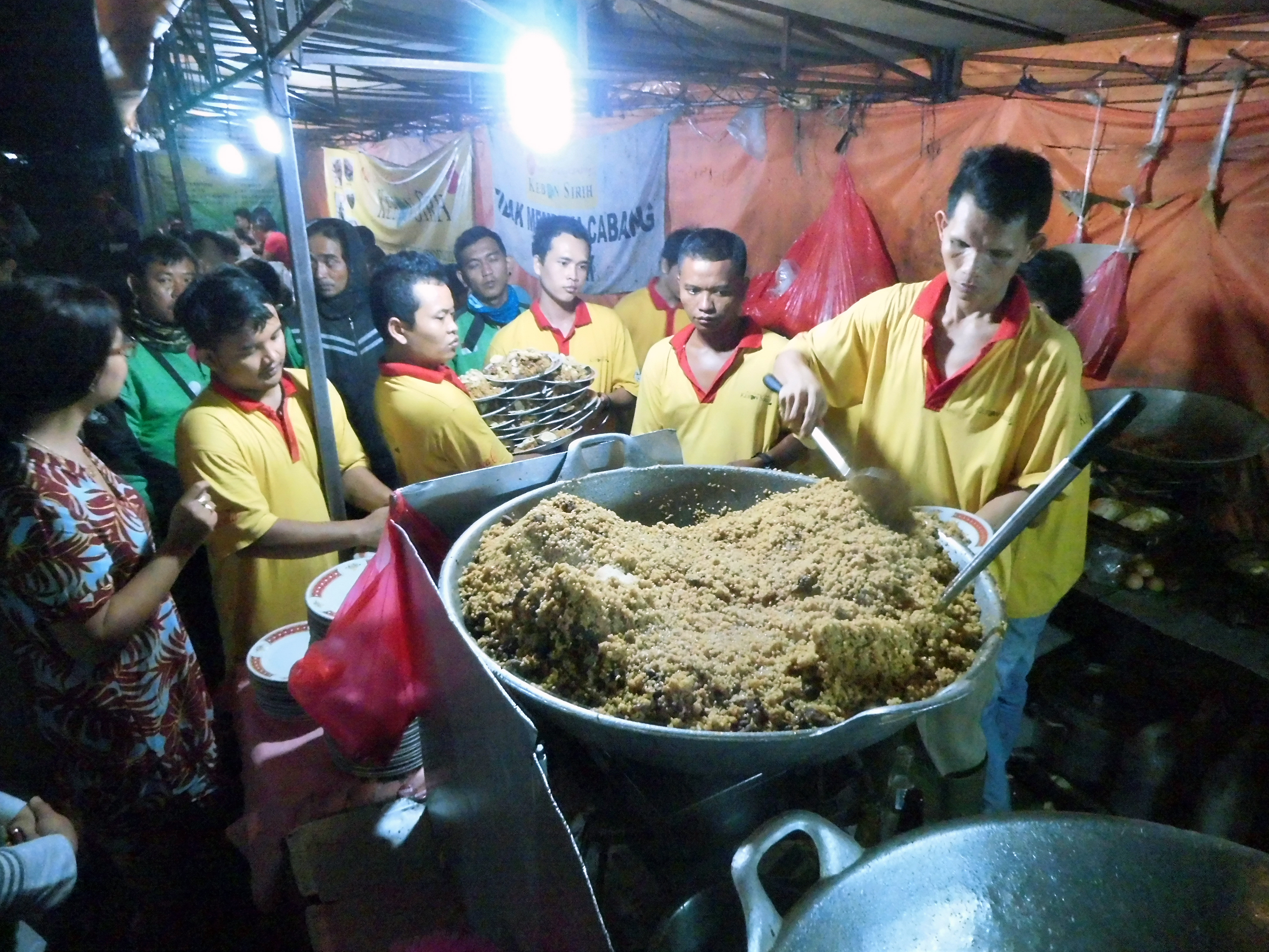 Nasi goreng kambing or goat meat fried rice in Kebon Sirih area, Central Jakarta. It is one of the popular nasi goreng vendor in the city. Here the cook prepared the fried rice in bulk.